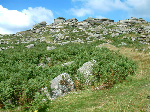 Kilmar Tor. Kilmar Tor looking from in a NW direction towards high rock. Trig point can just be seen on the right.